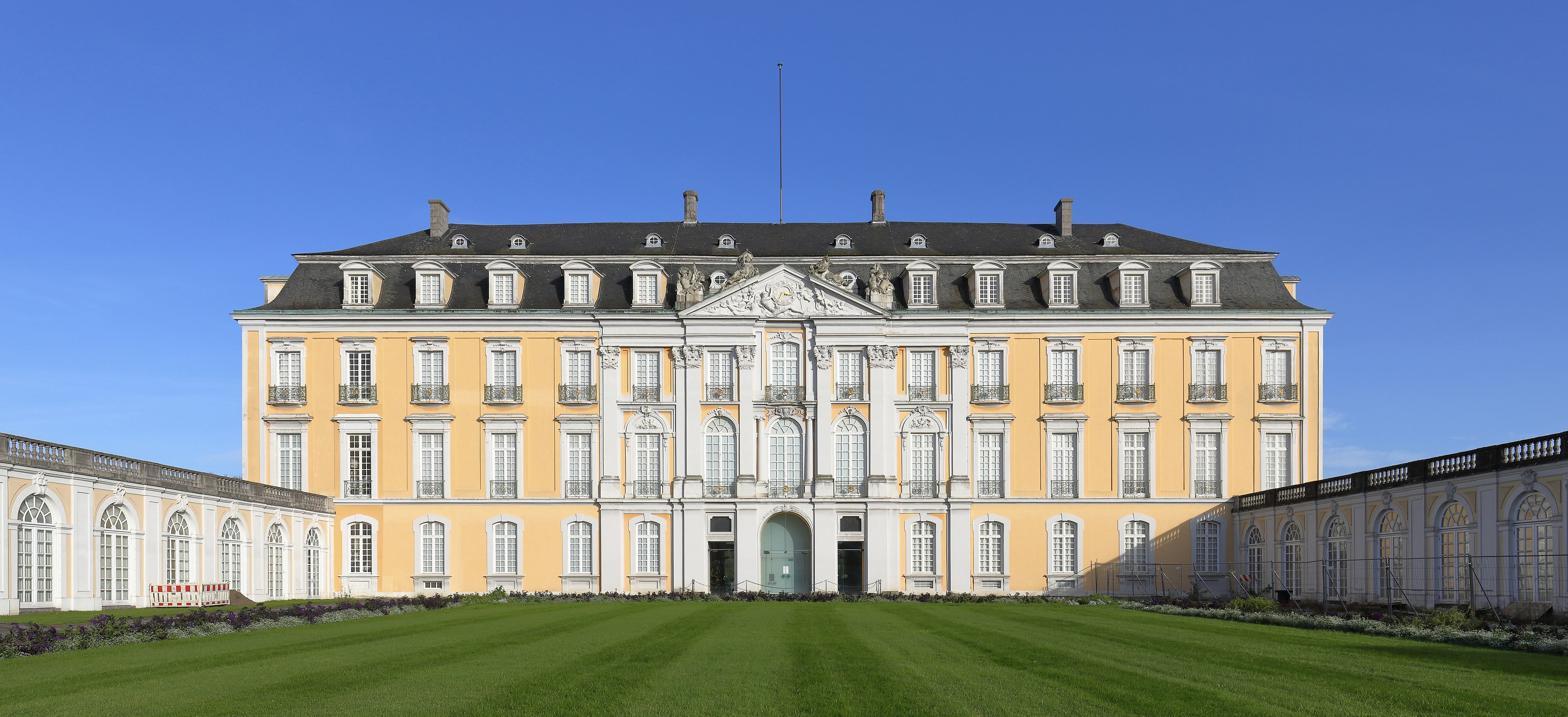 The western facade of Schloss Augustusburg. The Augustusburg and Falkenlust Palaces form a historical building complex in Brühl, North Rhine-Westphalia, Germany, which has been listed as a UNESCO World Heritage Site since 1984. The buildings are connected by the spacious gardens and trees of the Schlosspark.